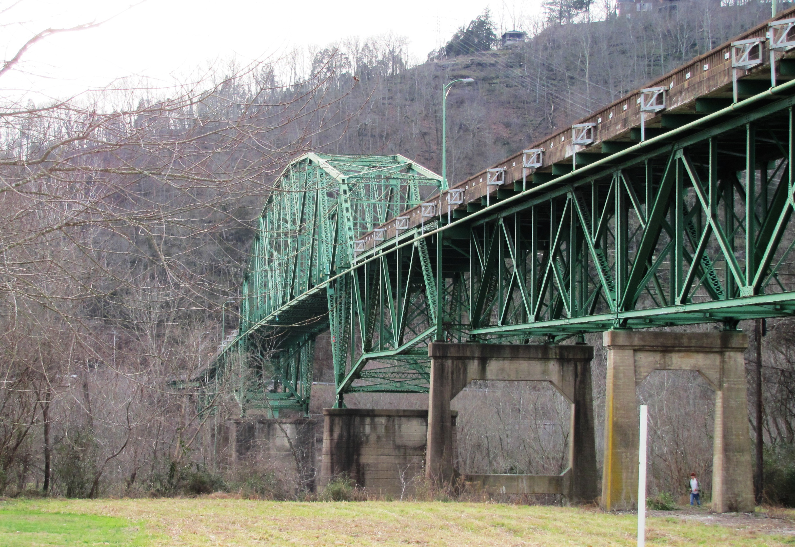 The Cordell Hull Bridge, spanning the Cumberland River in Carthage, Tennessee, USA. The bridge, built in 1936, was named for U.S. Secretary of State Cordell Hull, who once lived in Carthage.